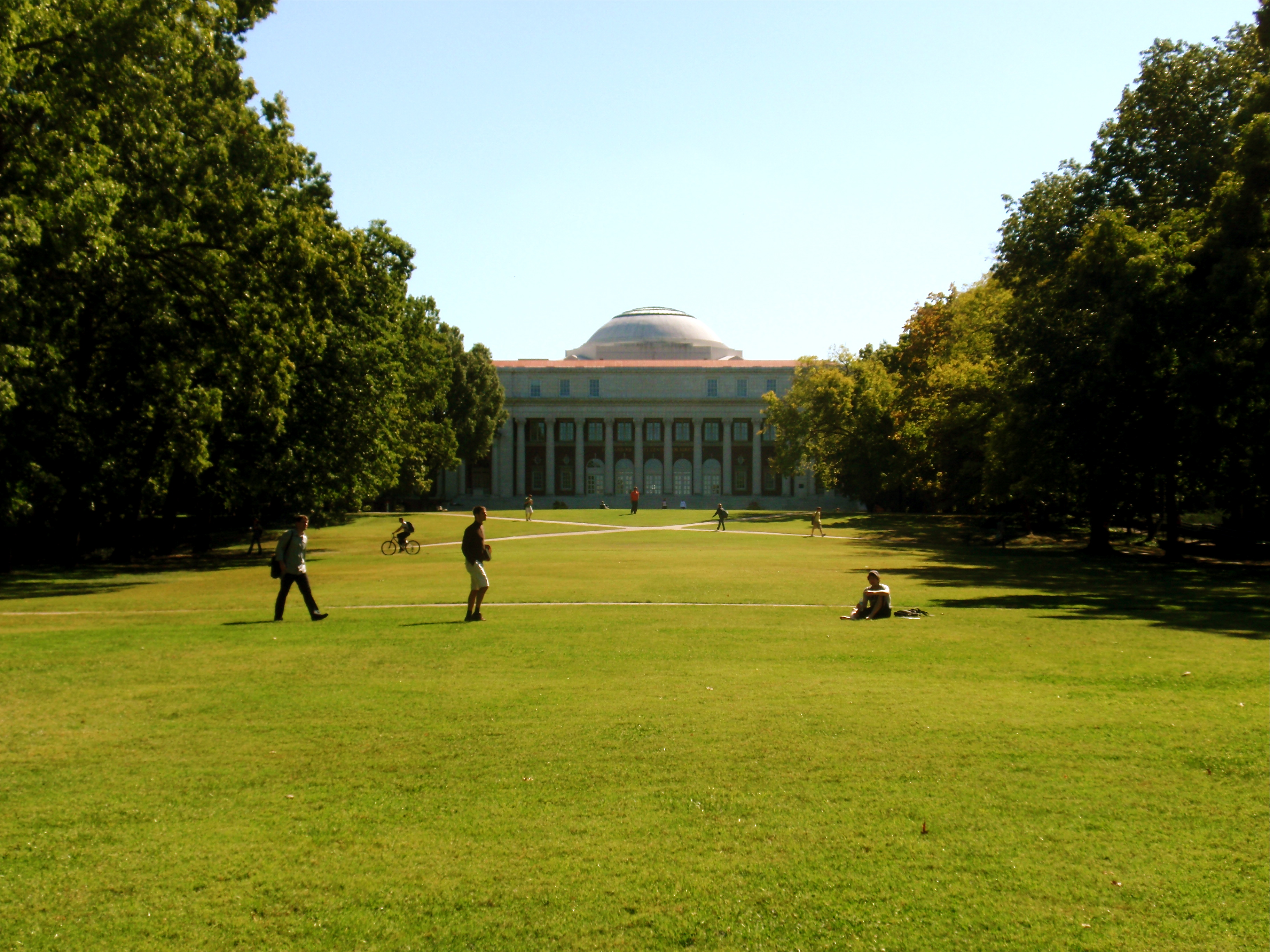 Wyatt Center, Peabody campus, Vanderbilt University, Nashville